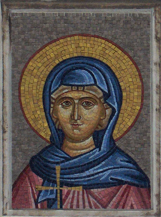 Mosaic of the Blessed Virgin, Cathedral of the Assumption of the Blessed Virgin Mary, Pula, Croatia